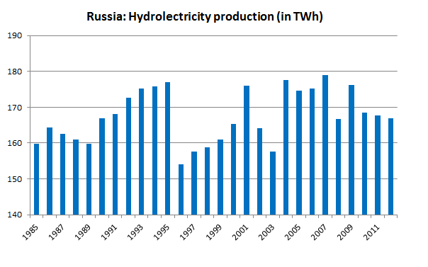 Russia: Hydroelectricity Consumption 1985-2102. Source: BP Statistical Review of World Energy, 2013